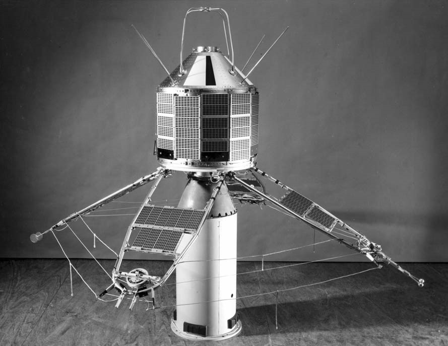 Ariel 3 is seen with its four paddles extended.